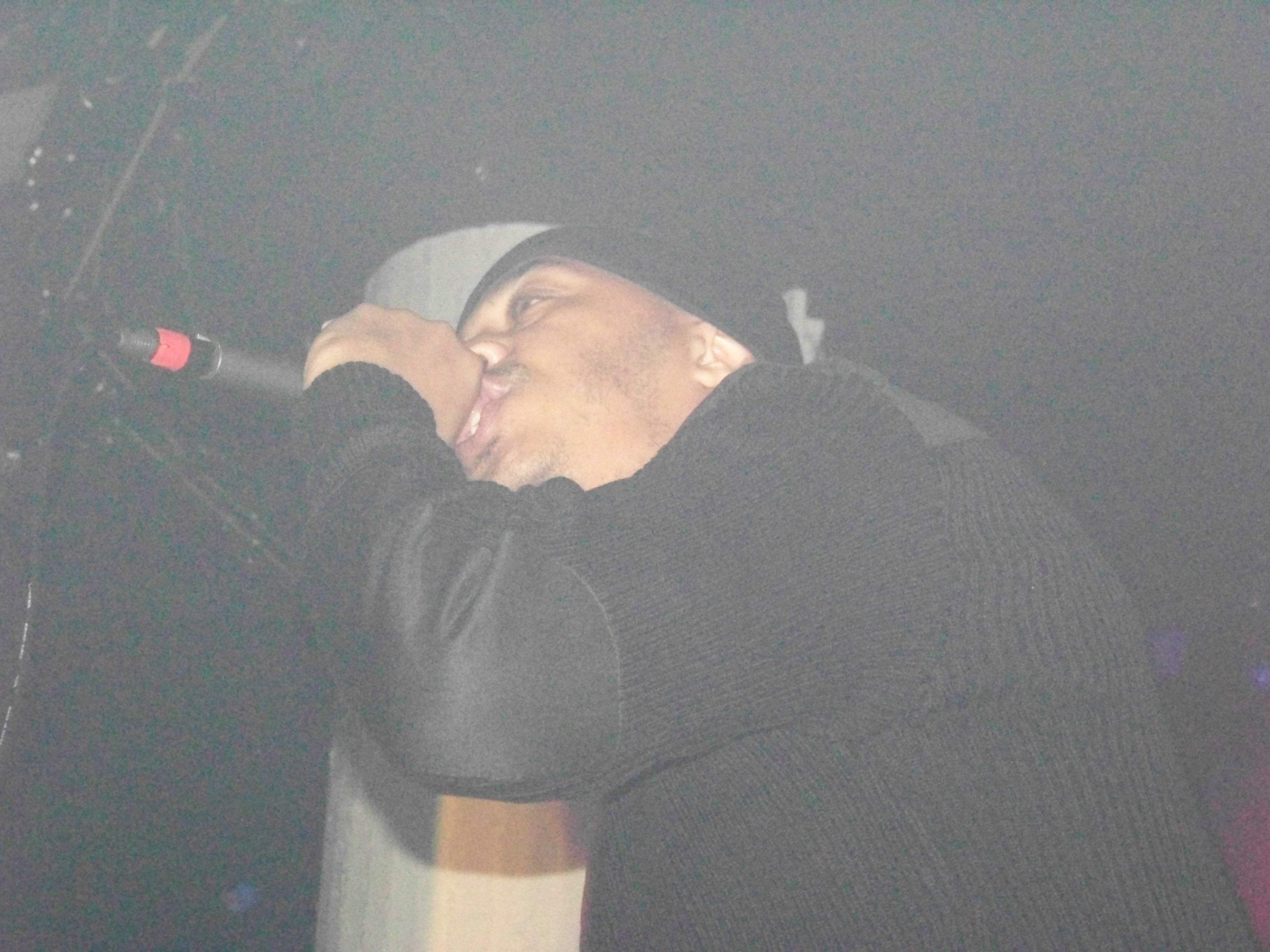 Rapper U-God performing in Atlanta, Georgia.